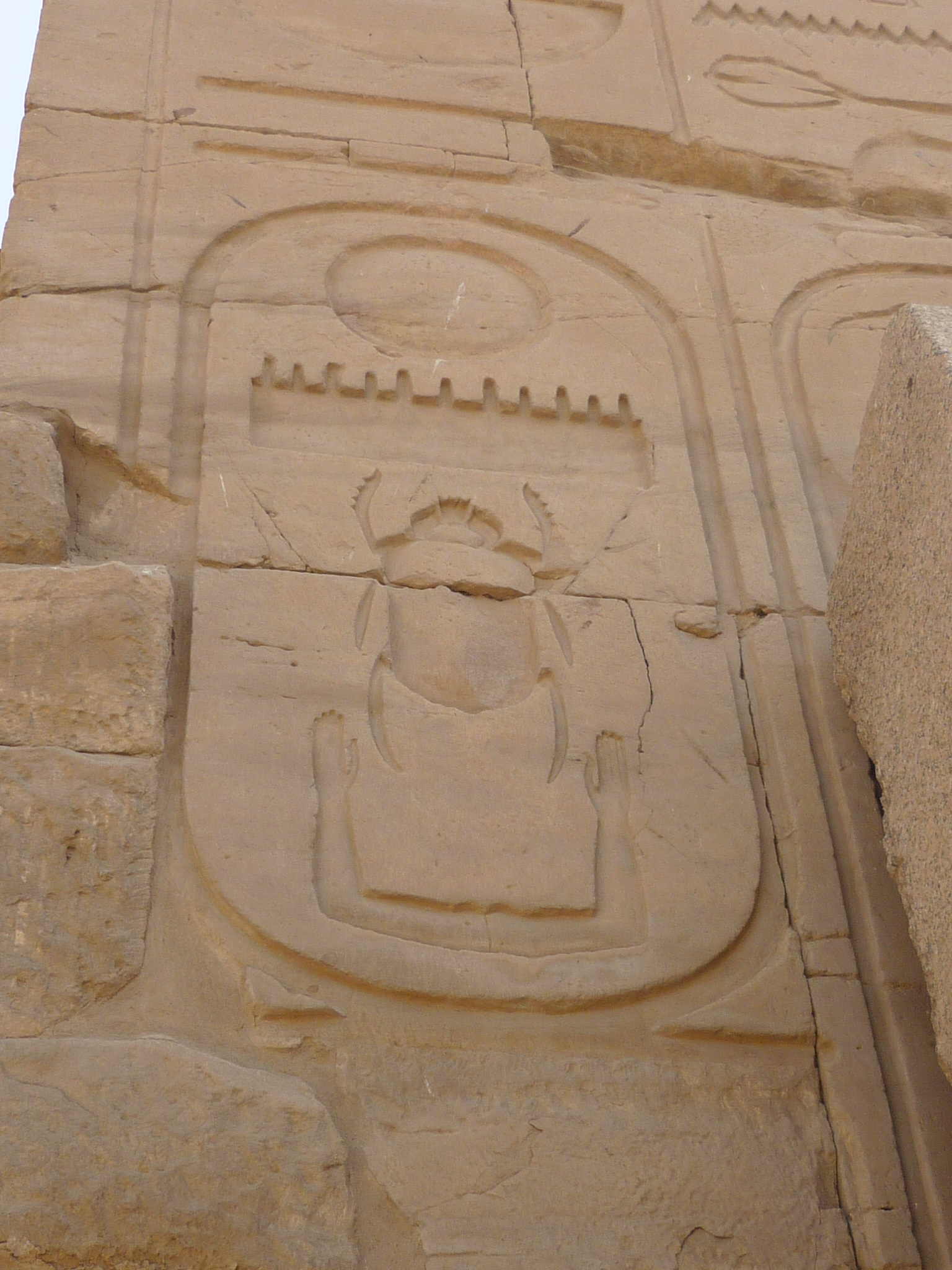 Wall relief with the cartouche of Thutmosis III on eighth pylon, Karnak temple of Amun-Ra, Egypt